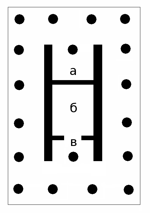 Peripter